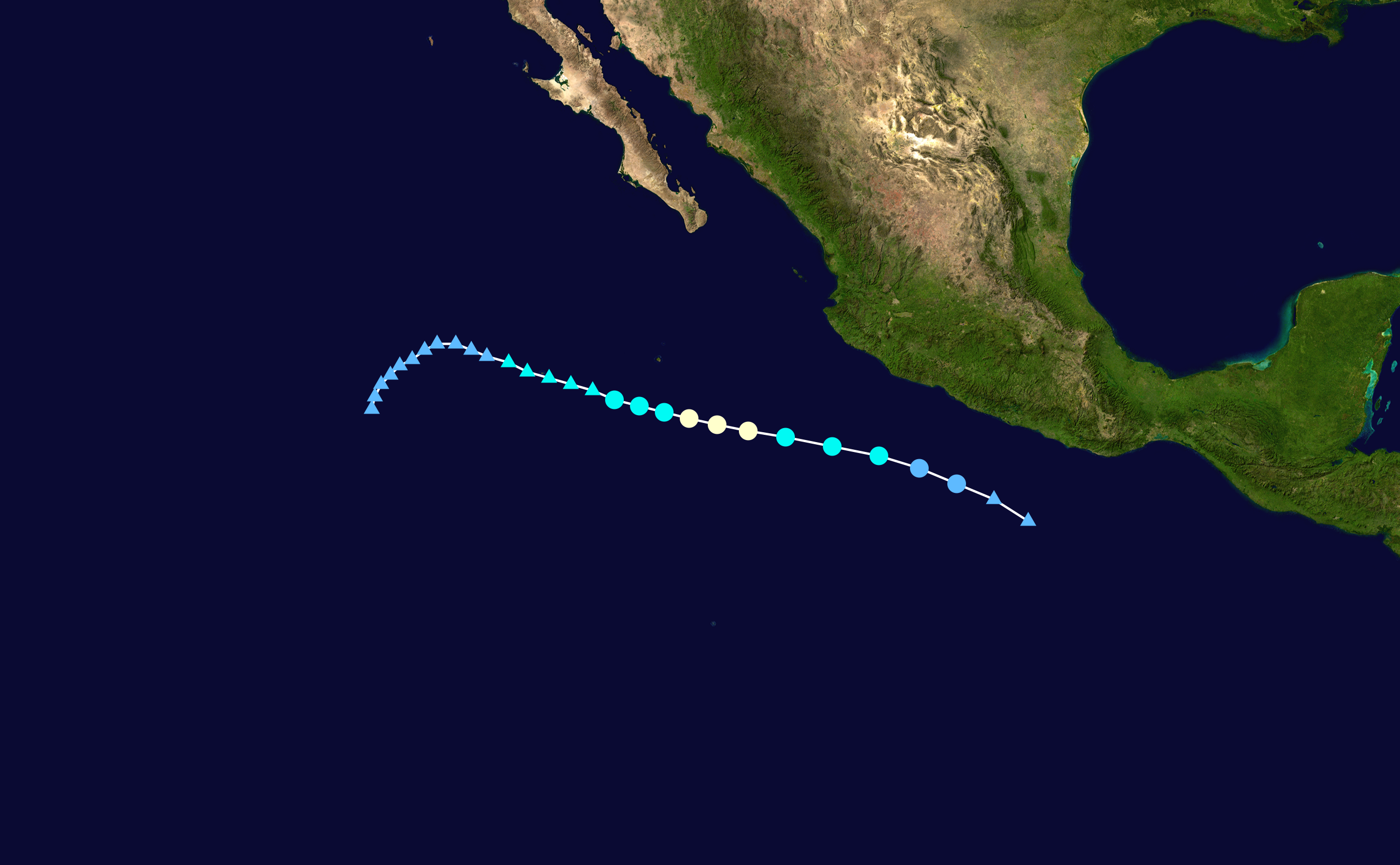 Track map of Hurricane Calvin of the 2011 Pacific hurricane season. The points show the location of the storm at 6-hour intervals. The colour represents the storm's maximum sustained wind speeds as classified in the Saffir–Simpson scale (see below), and the shape of the data points represent the nature of the storm, according to the legend below. Saffir–Simpson scale Tropical depression≤38 mph≤62 km/h Category 3111–129 mph178–208 km/h Tropical storm39–73 mph63–118 km/h Category 4130–156 mph209–251 km/h Category 174–95 mph119–153 km/h Category 5≥157 mph≥252 km/h Category 296–110 mph154–177 km/h Unknown Storm type Tropical cyclone Subtropical cyclone Extratropical cyclone / Remnant low / Tropical disturbance / Monsoon depression